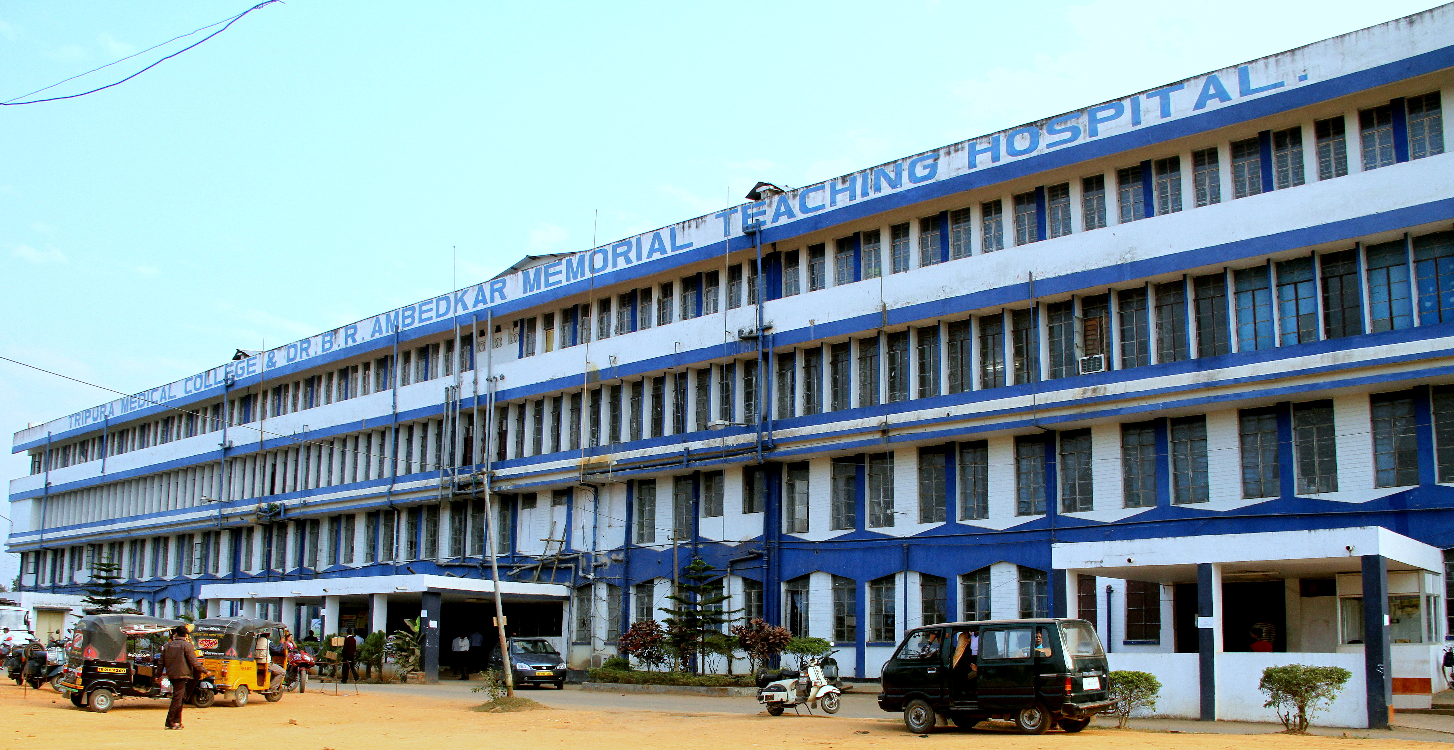 Front view of the Tripura Medical College & Dr. B.R. Ambedkar Memorial Teaching Hospital